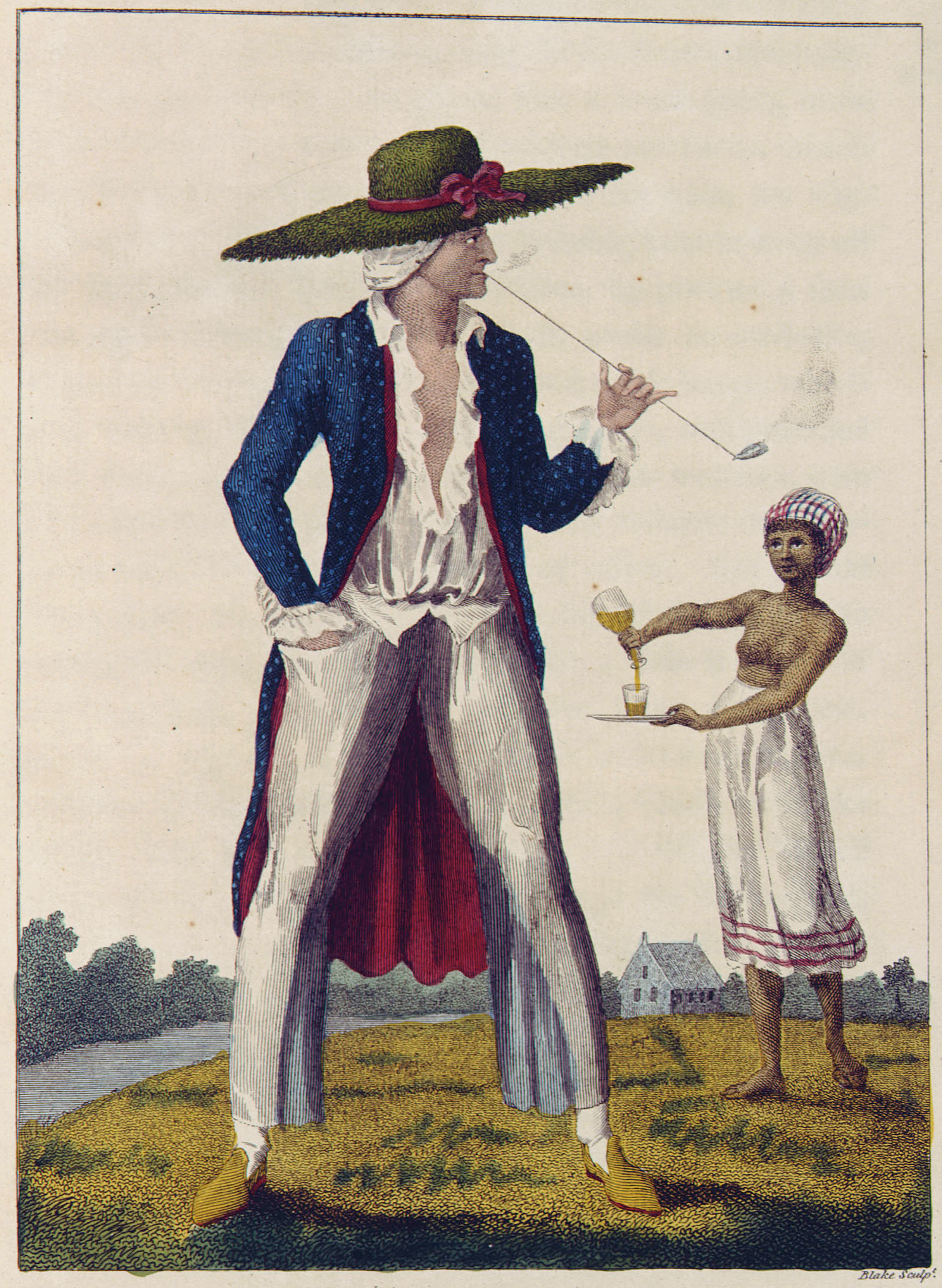 A Surinam Planter in his Morning Dress